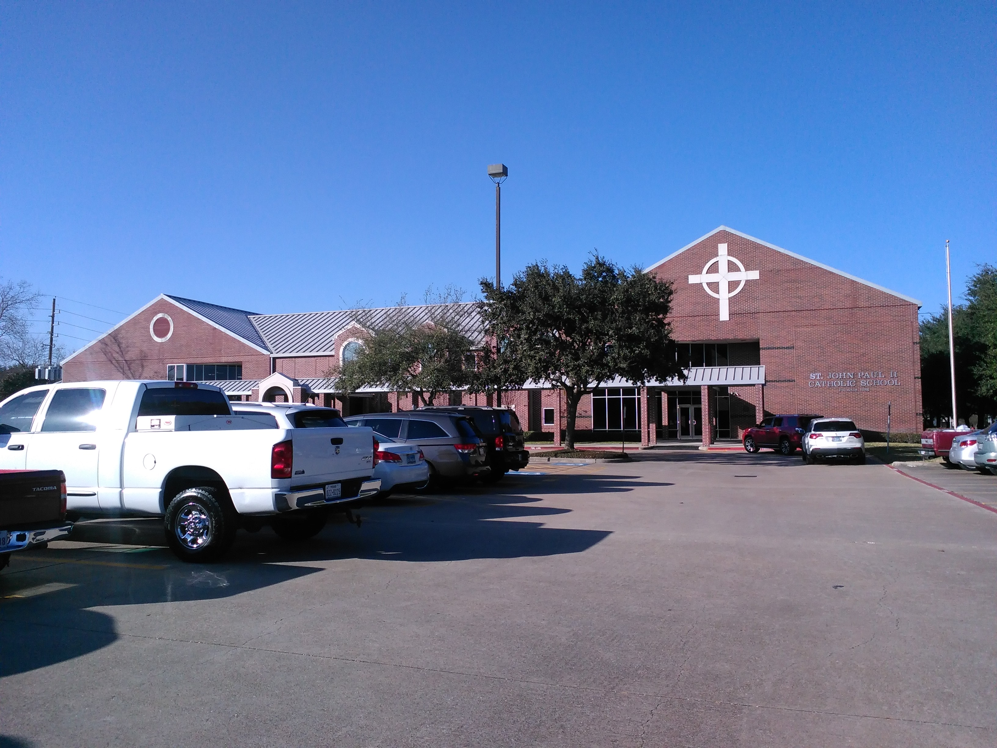 John Paul II Catholic School